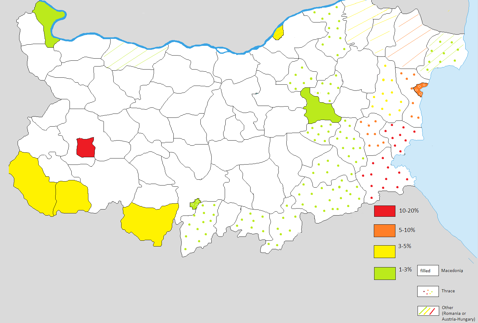 Percentage of foreign-born ethnic Bulgarians calculated from the total of the ethnic Bulgarians by region of origin according to the 1910 census. Map adapted from File:BG Okolii.png